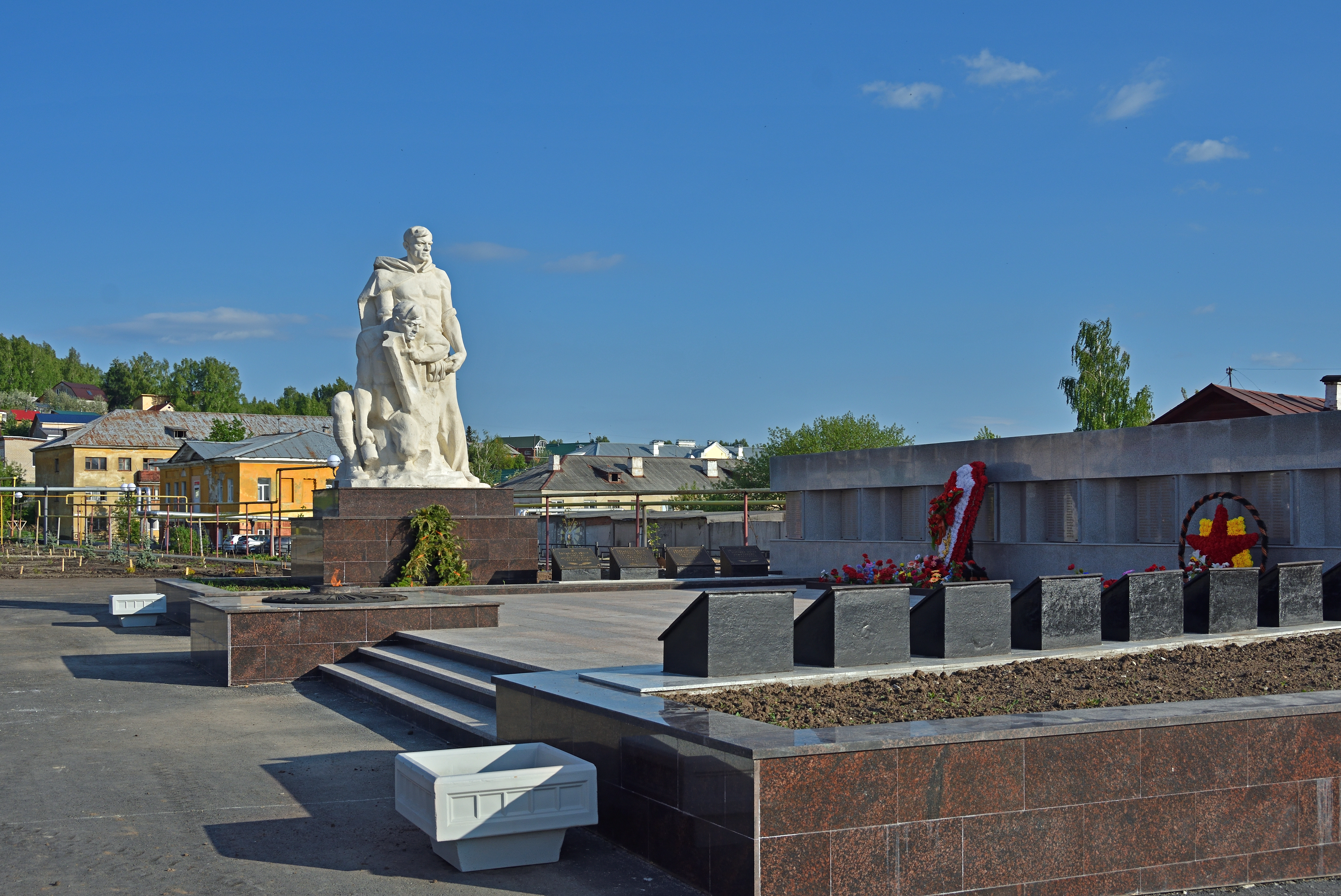 War memorial in Verkh-Neyvinsky, Sverdlovsk oblast, Russia